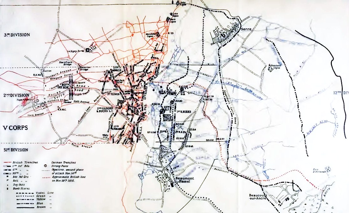 Diagram of 2nd Division positions during the assembly for the battle of the Ancre, November 1916